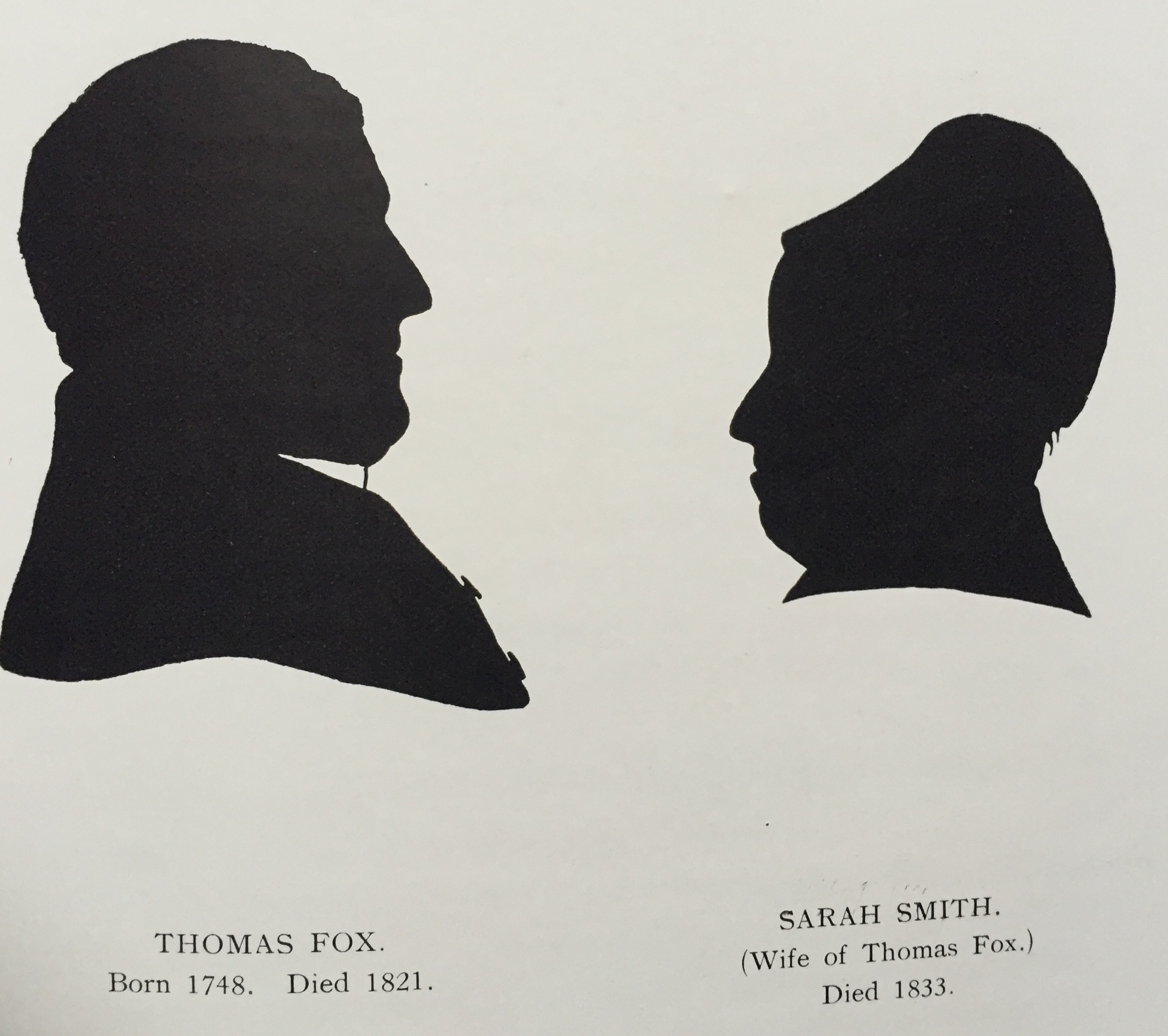 Thomas & Sarah Fox of Tone Dale House, Wellington, Somerset - founder of Fox Brothers & Co.